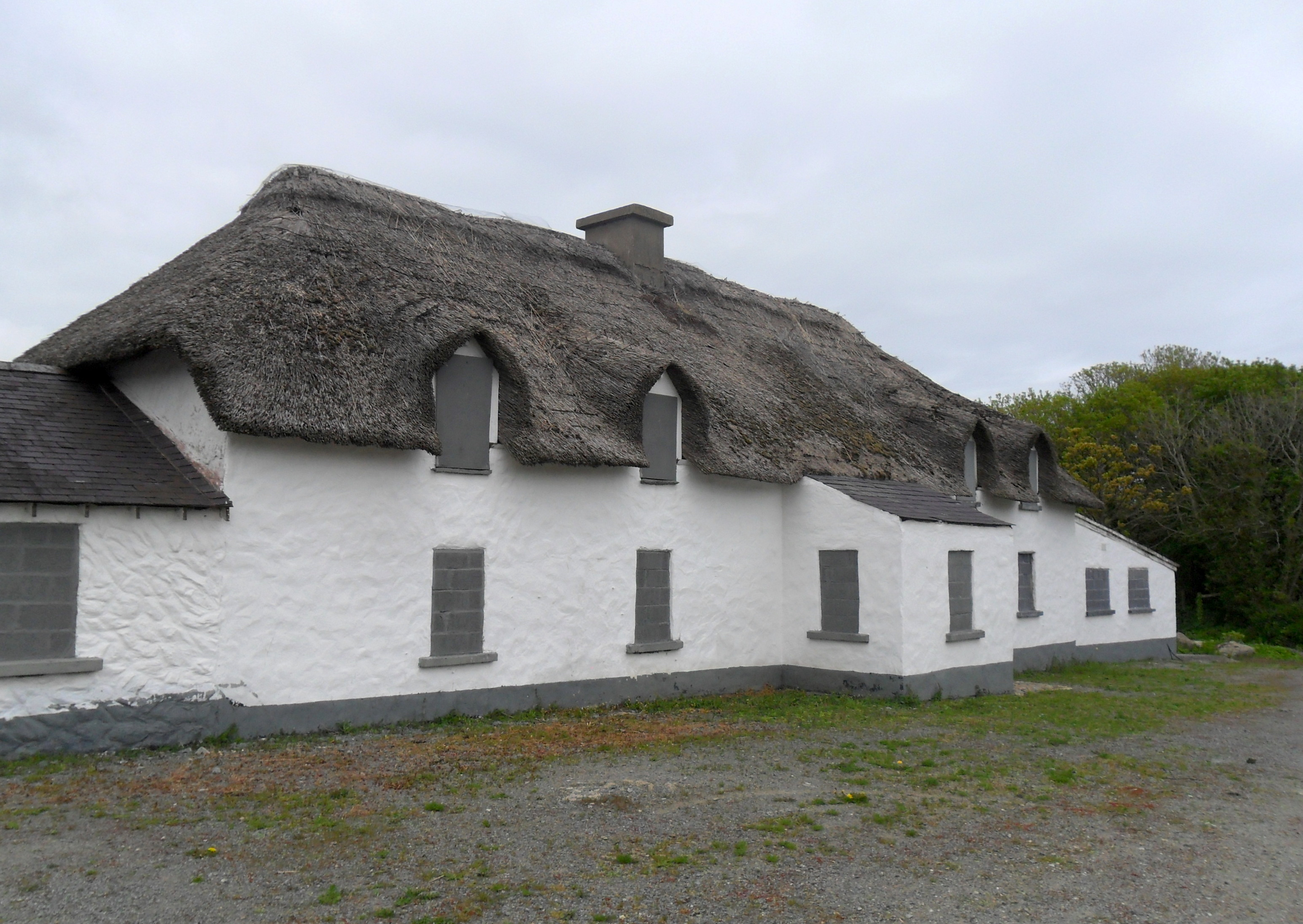 Yola farm refurbished in Tagoat, Co. Wexford, Ireland